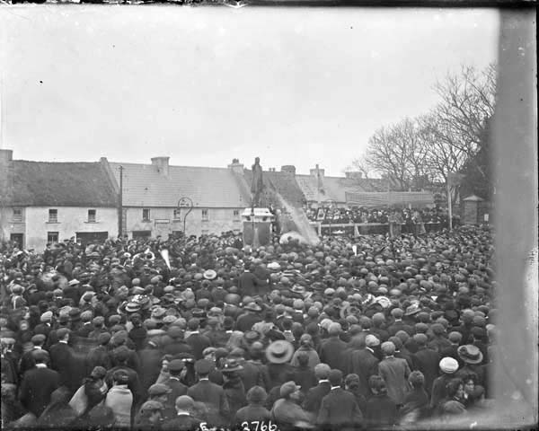 Crowded square Abbeyfeale, County Limerick, Ireland in 1910, on occasion of unveiling of statue to Father William Casey. Glass negative. From National Library of Ireland Eason Collection. NLI reference number: EAS_2766. Modern view (Google street view)